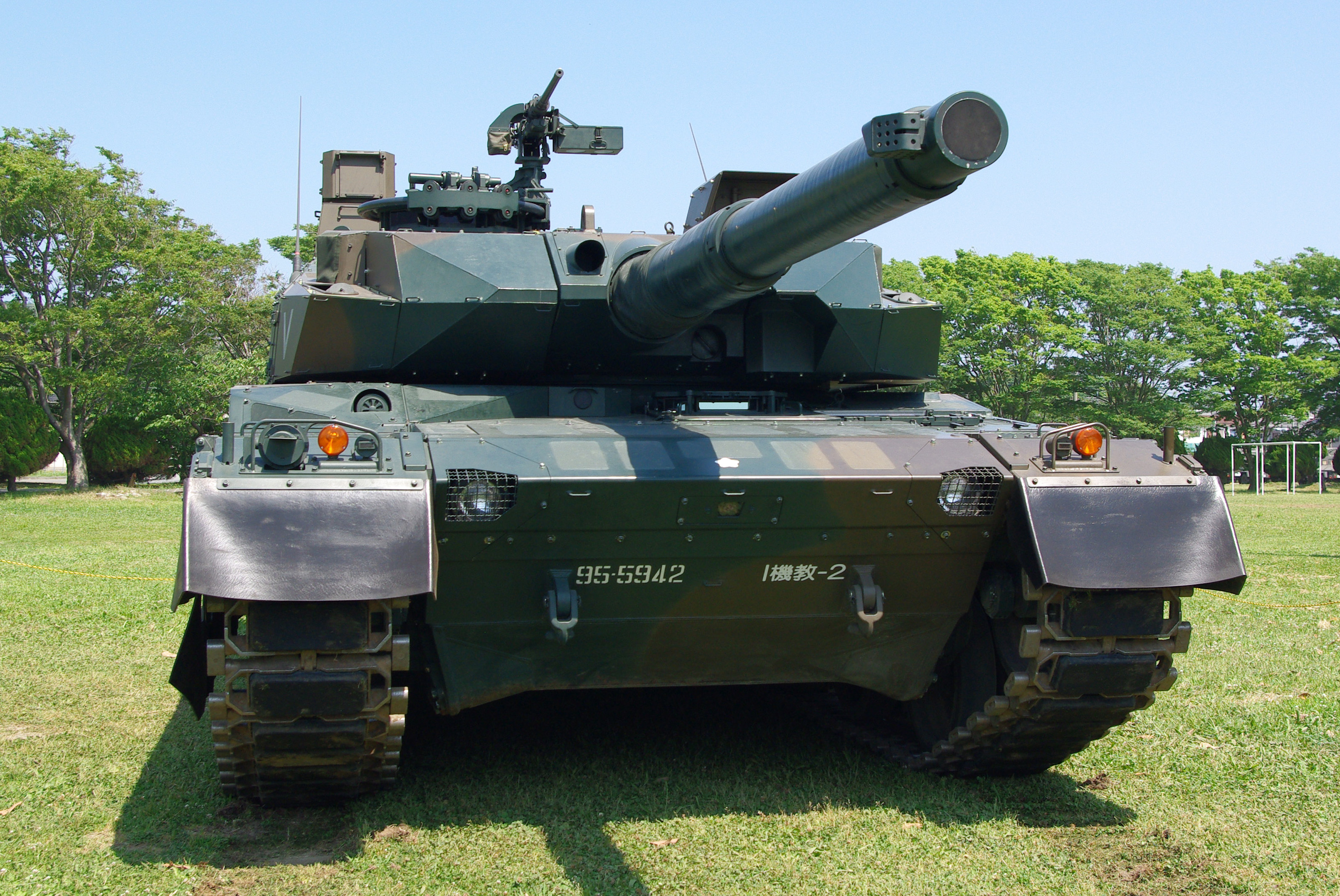 JGSDF Type10 Tank (production model),1st Armored Training Unit/Eastern Army Combined Brigade.Taken by Los688,in Camp Takeyama,Japan,at 27-May-2012.PD-self ja:10式戦車（量産型）2012年05月27日、東部方面混成団第1機甲教育隊 武山駐屯地で撮影。